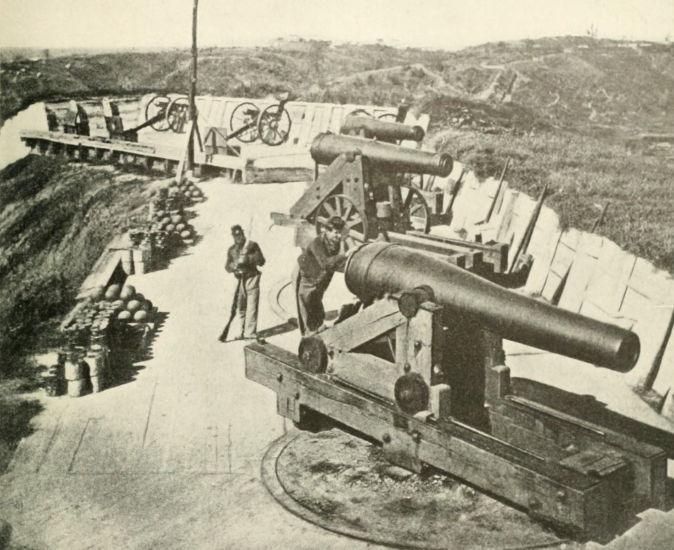 Battery Sherman on the Jackson Road outside of Vicksburg, 1863.